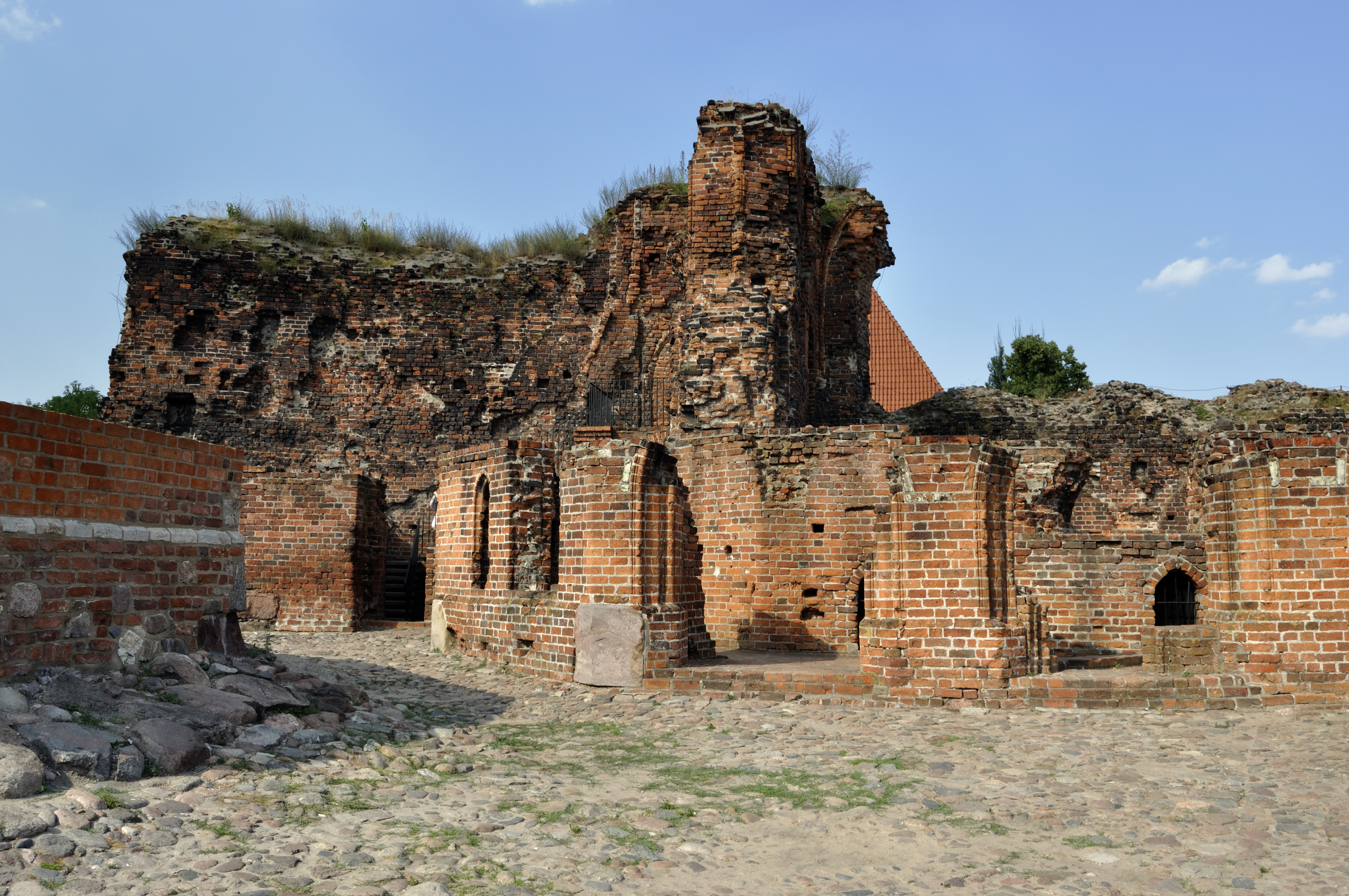 Picture taken in Toruń after Wikimania 2010 conference.